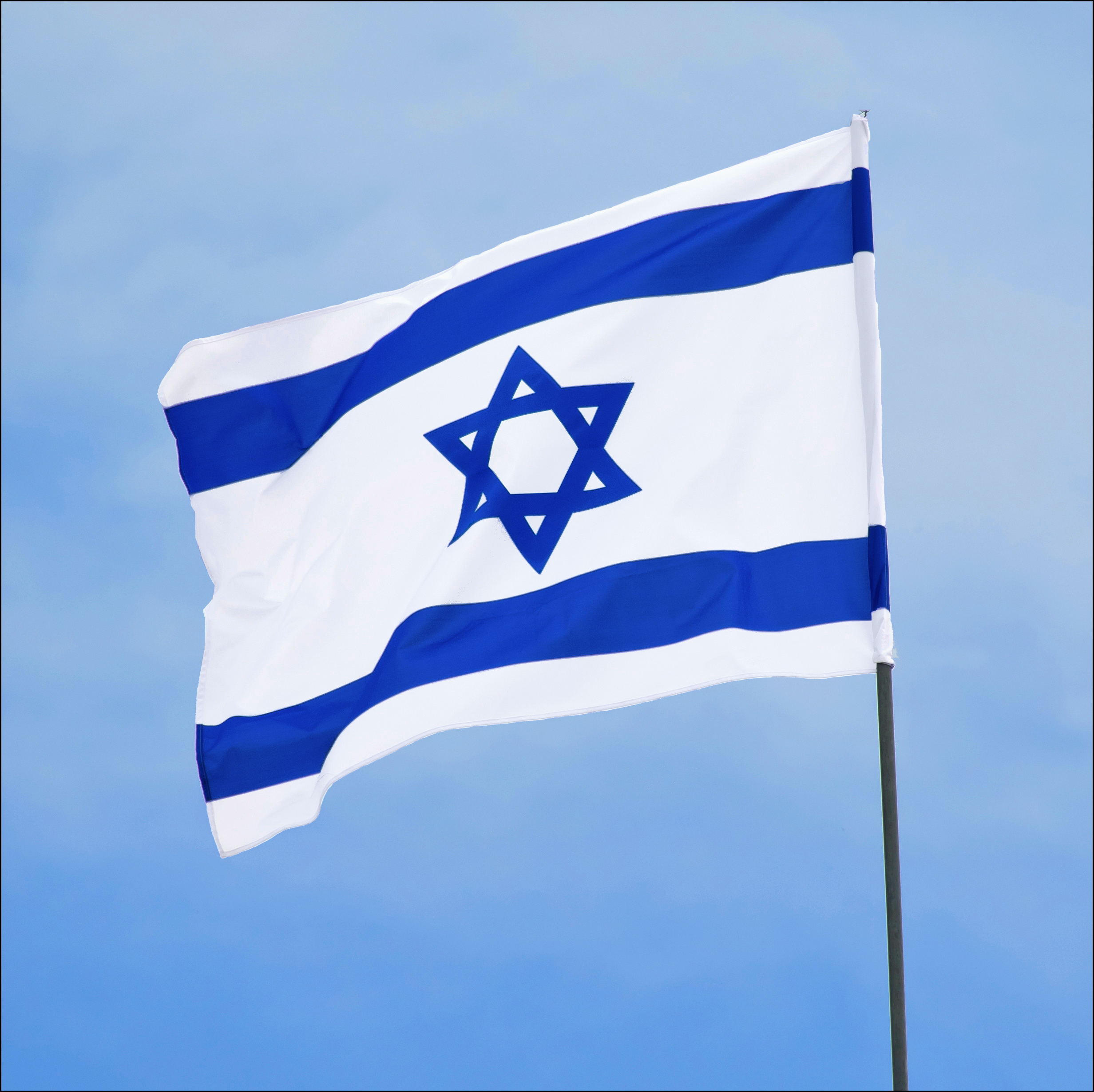 The flag of Israel in Yad LaShiryon, Latrun, Israel